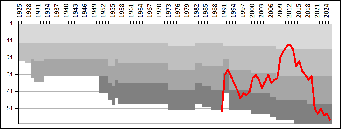 A chart showing the progress of Syrianska FC through the Swedish football league system. Horizontal black lines represent league divisions.